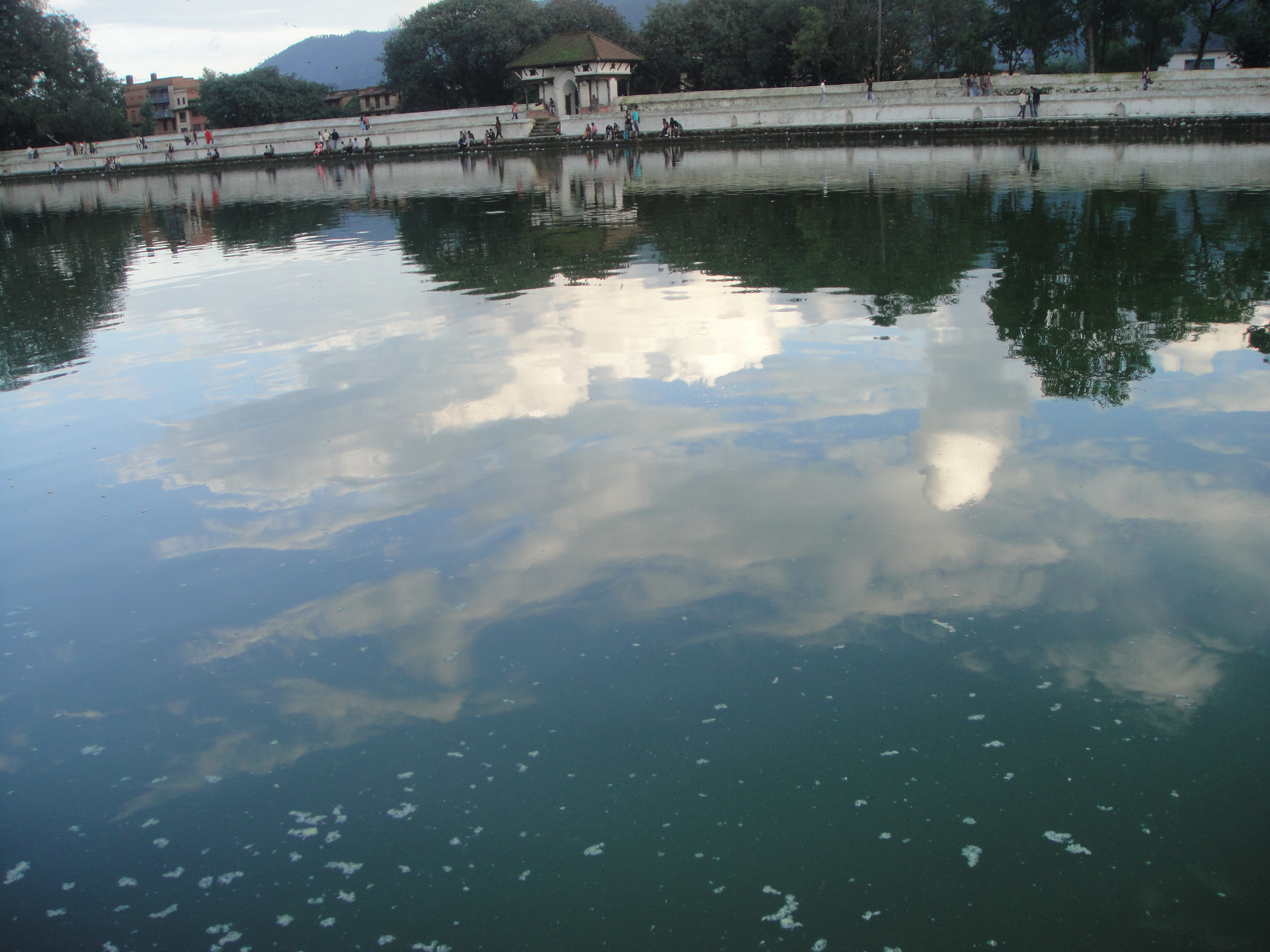 A pond in Bhaktapur district of Nepal